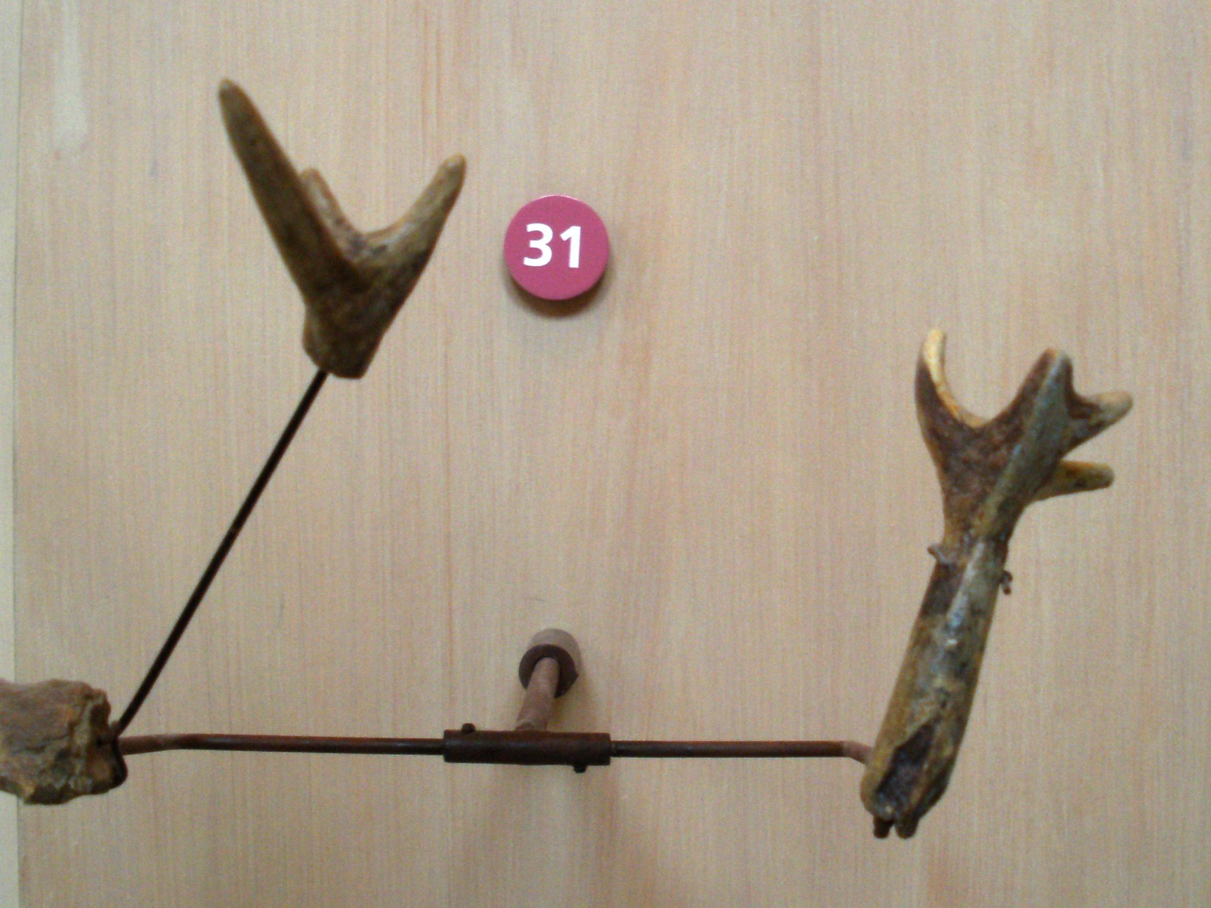 Horns of Lagomeryx, a fossil artiodactyl DateApril 2008Sourcetook the foto on the "American Museum of Natural History" in New YorkAuthorGhedoghedoPermission (Reusing this file)